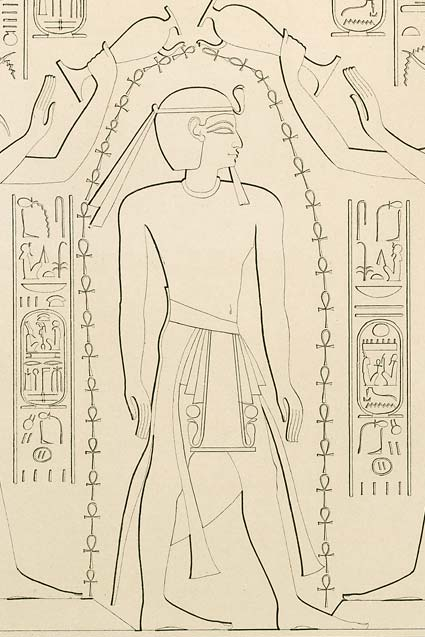 Drawing from the temple of Khonsu in Karnak (Room E). Closeup of pharaoh Ramesses XI while taking a sort of "shower of Life" performed by two gods. Karnak, Reign of Ramesses XI, end-20th Dynasty, end-New Kingdom. [Lepsius' Denkmaeler, Abtheilung III (Band VII), pl. 239]